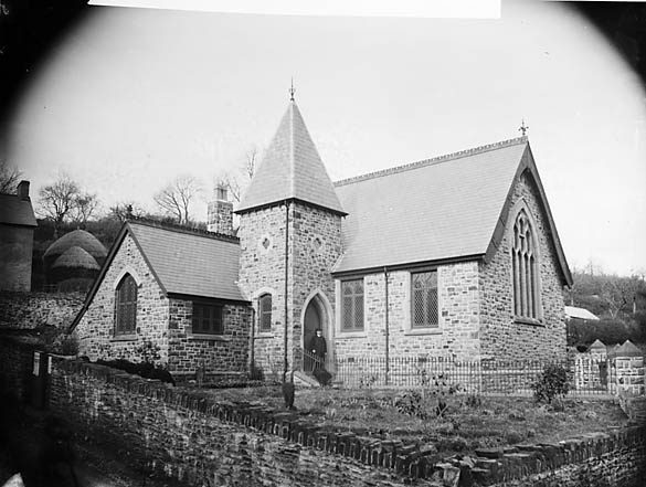 1 negative : glass, dry plate, b&w ; 16.5 x 21.5 cm.